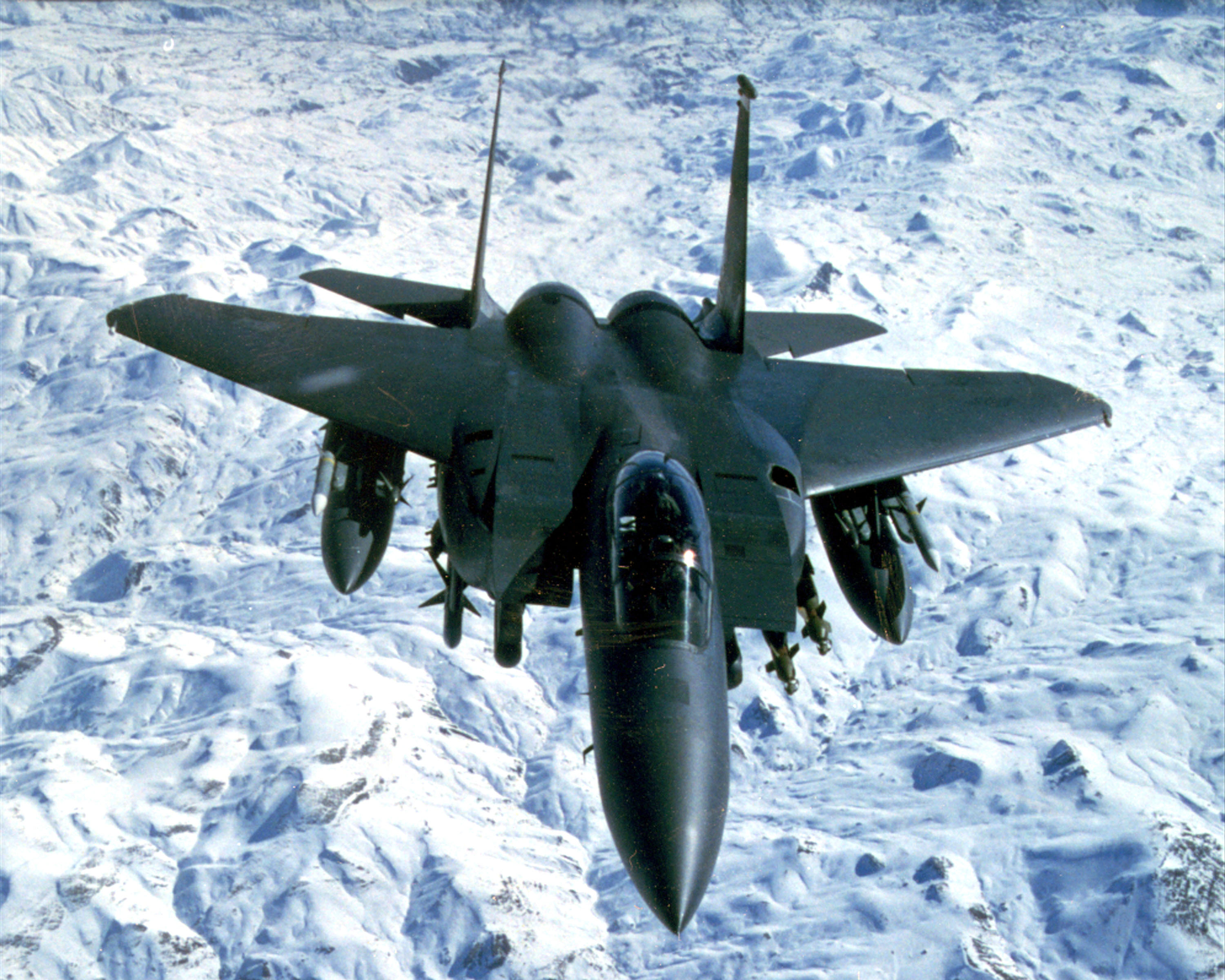 A U.S. Air Force F-15E Eagle flies above snow covered mountains during a routine patrol over Northern Iraq on Feb. 18, 1999, in support of Operation Northern Watch. Northern Watch is the coalition enforcement of the no-fly-zone over Northern Iraq. The Eagle is deployed from the 494th Expeditionary Fighter Squadron, RAF Lakenheath, United Kingdom.